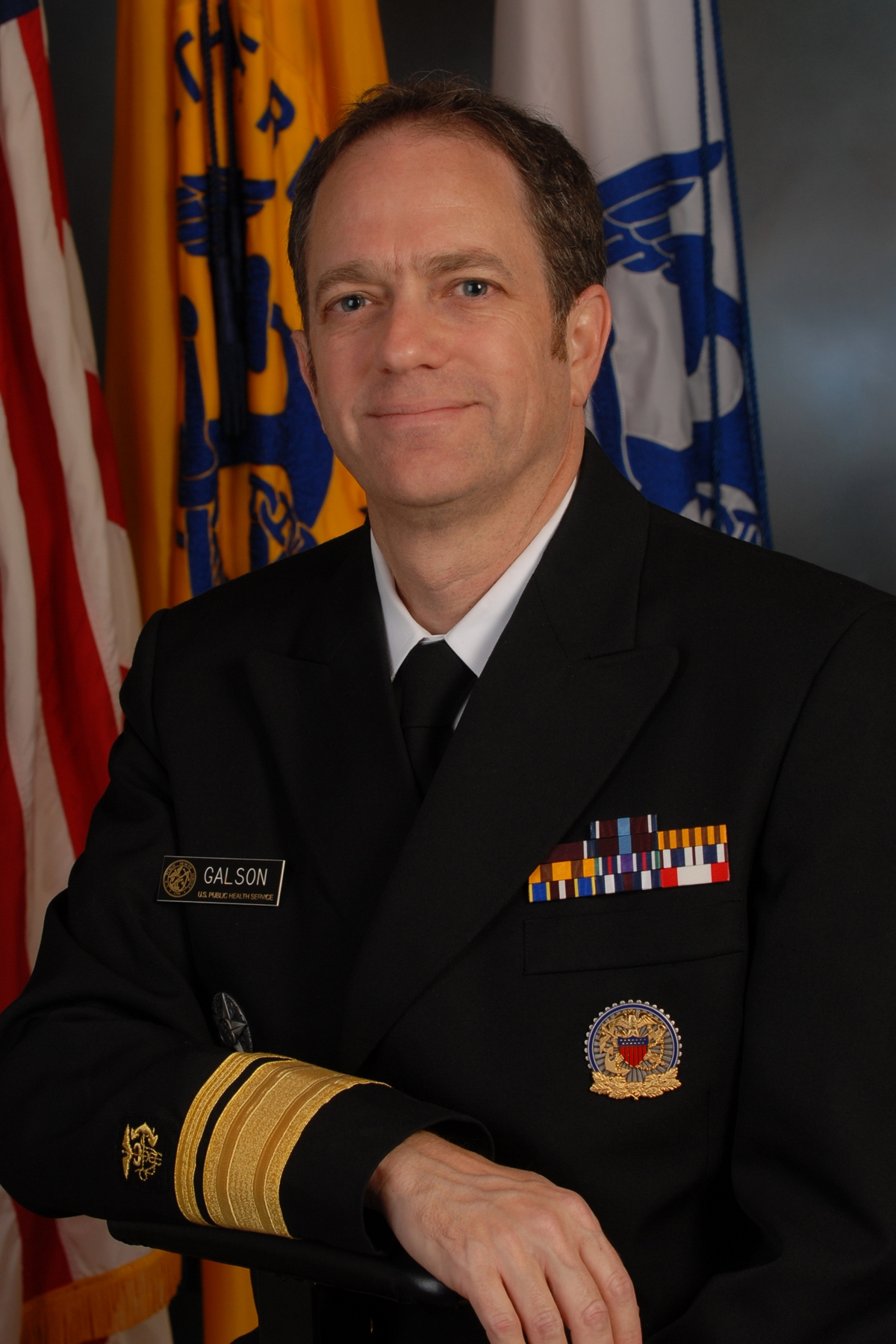 The official photograph for the Acting Surgeon General, Steven K. Galson